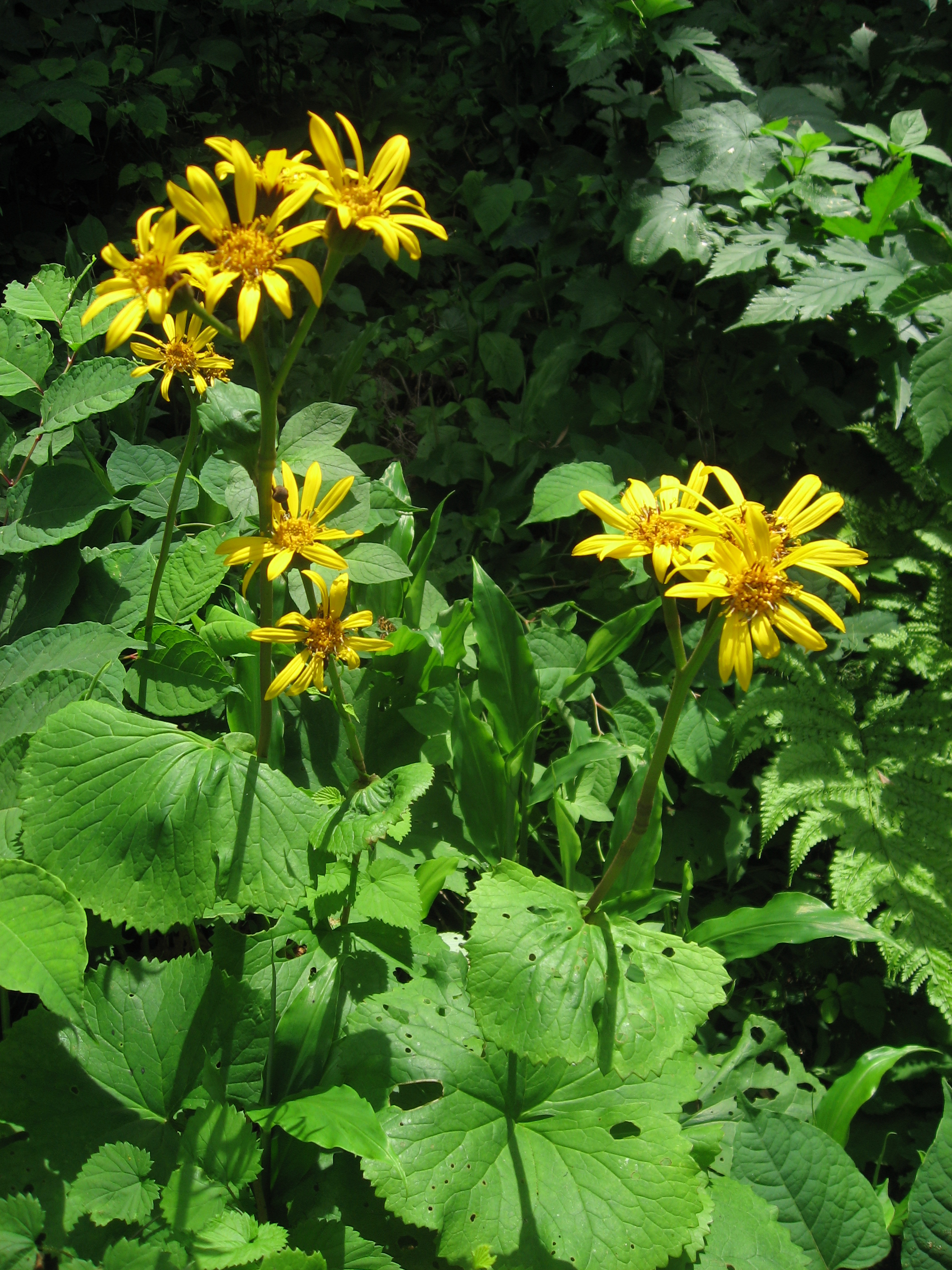 Ligularia dentata, Aizu area, Fukushima pref., Japan